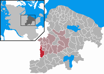 This map shows the area of the Gemeinde (municipality) Bothkamp in the Kreis (district) Plön, Schleswig-Holstein, Germany.